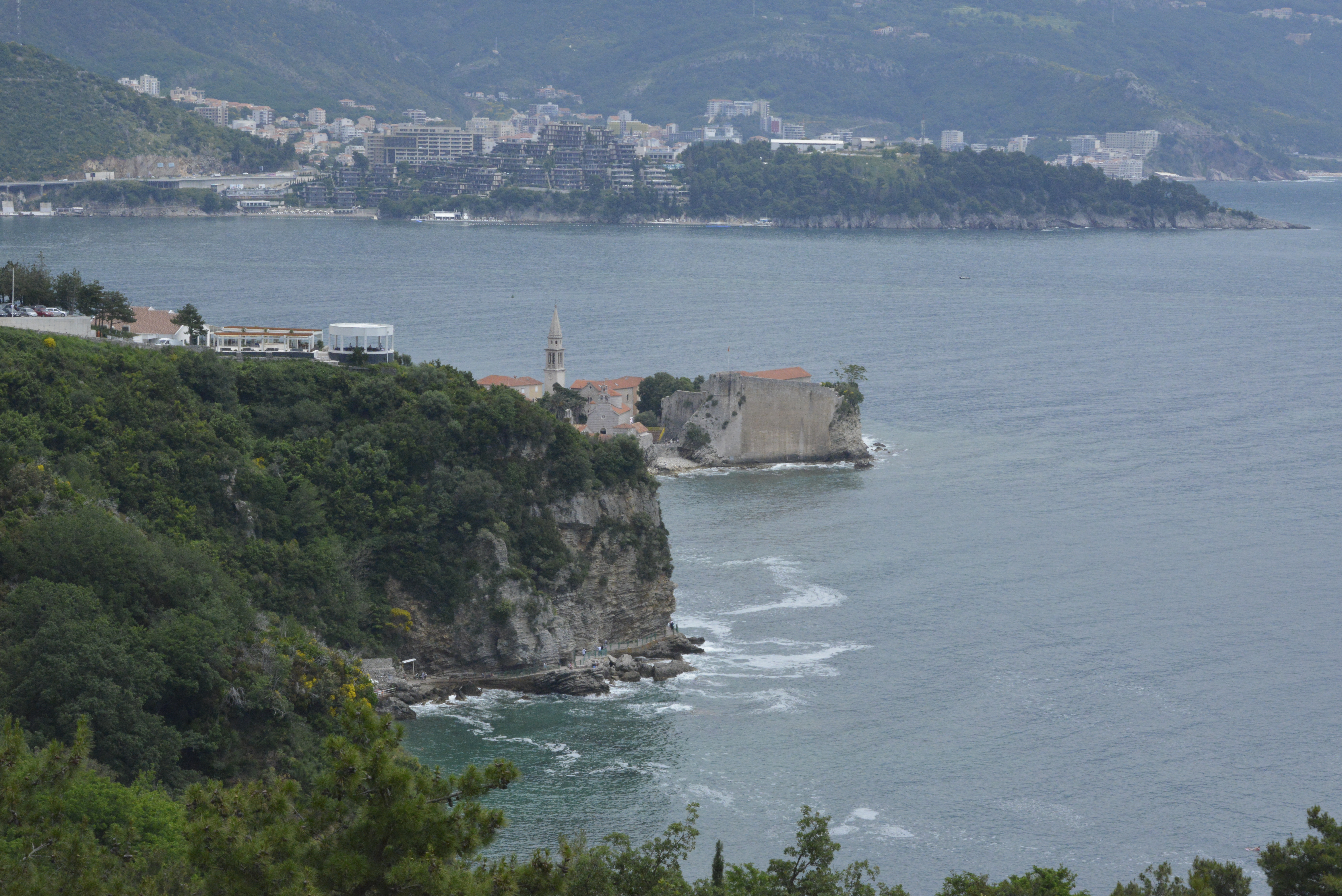 Beach "Slovenska", Budva, Montenegro